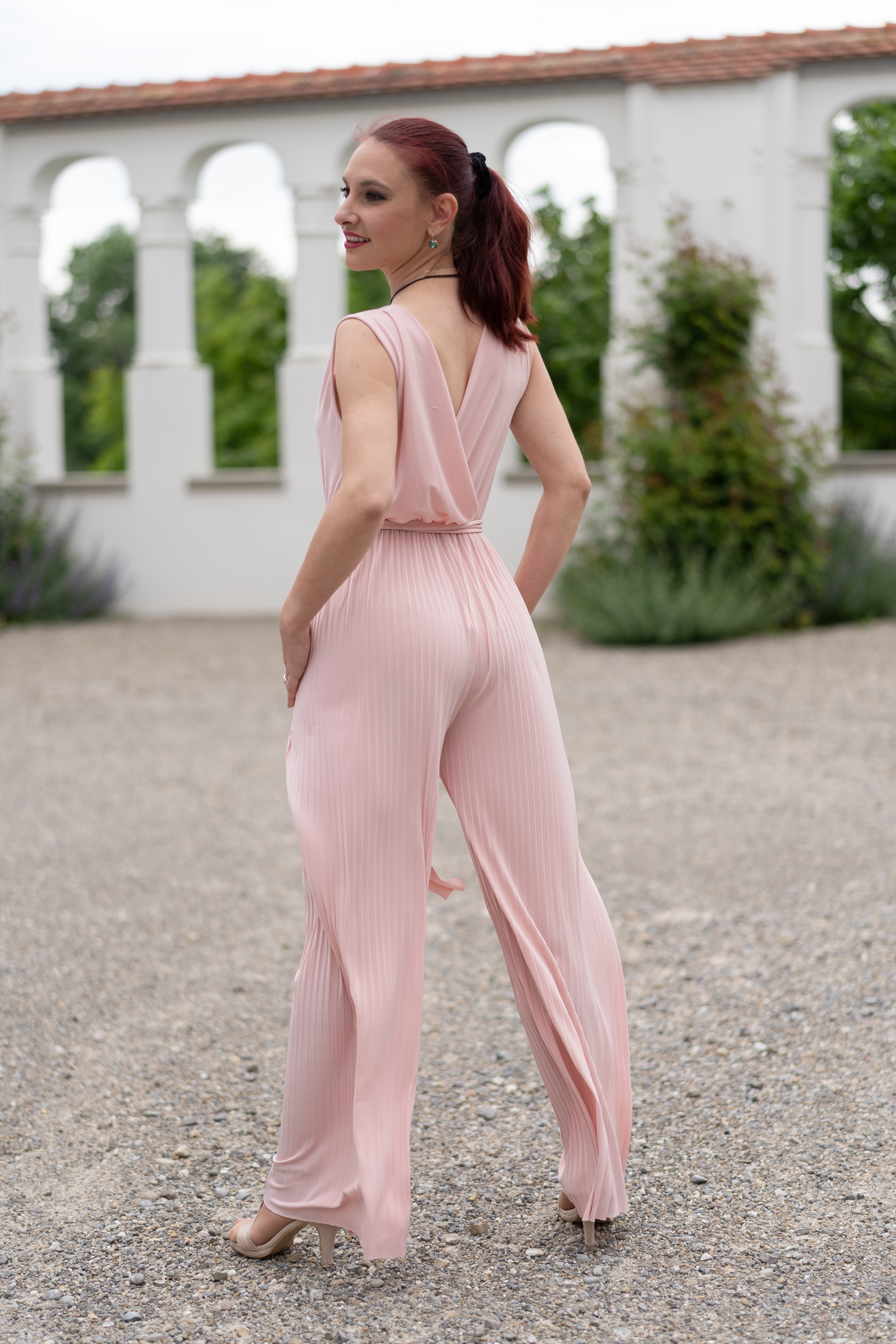 Jumpsuit with pleated legs.